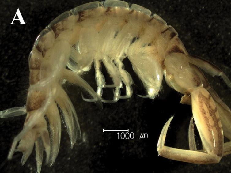 Sinocorophium hangangense (Amphipoda: Corophiidae) from Gongreung stream, Songchon-ri, Gyoha-eup, Paju-si, Korea. Lateral view of male (11.5 mm)